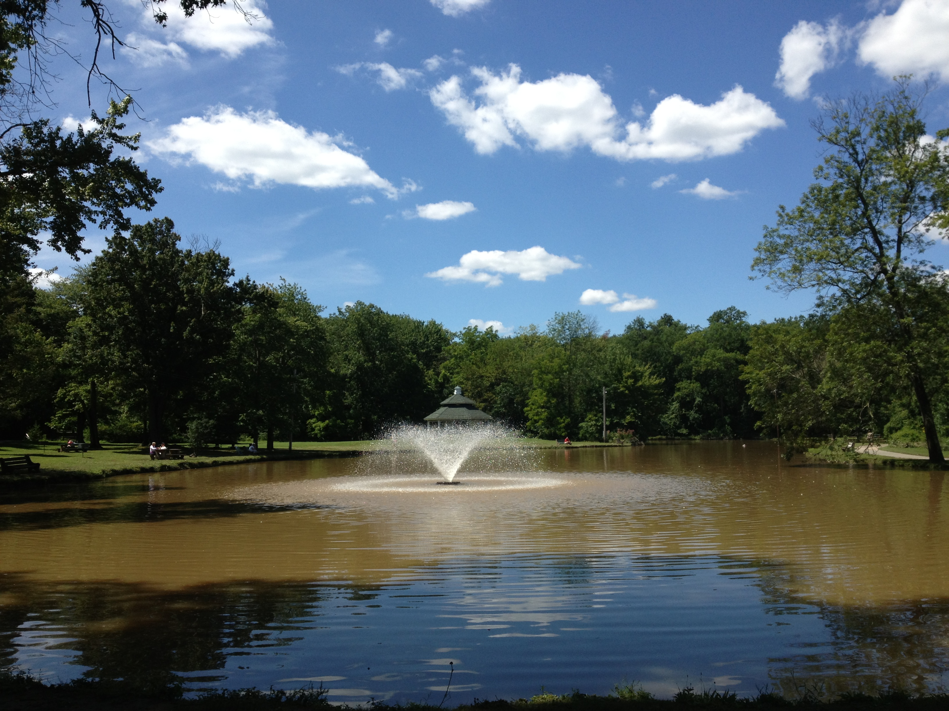 The pond at Kohler Park in Horsham Township, Pennsylvania.